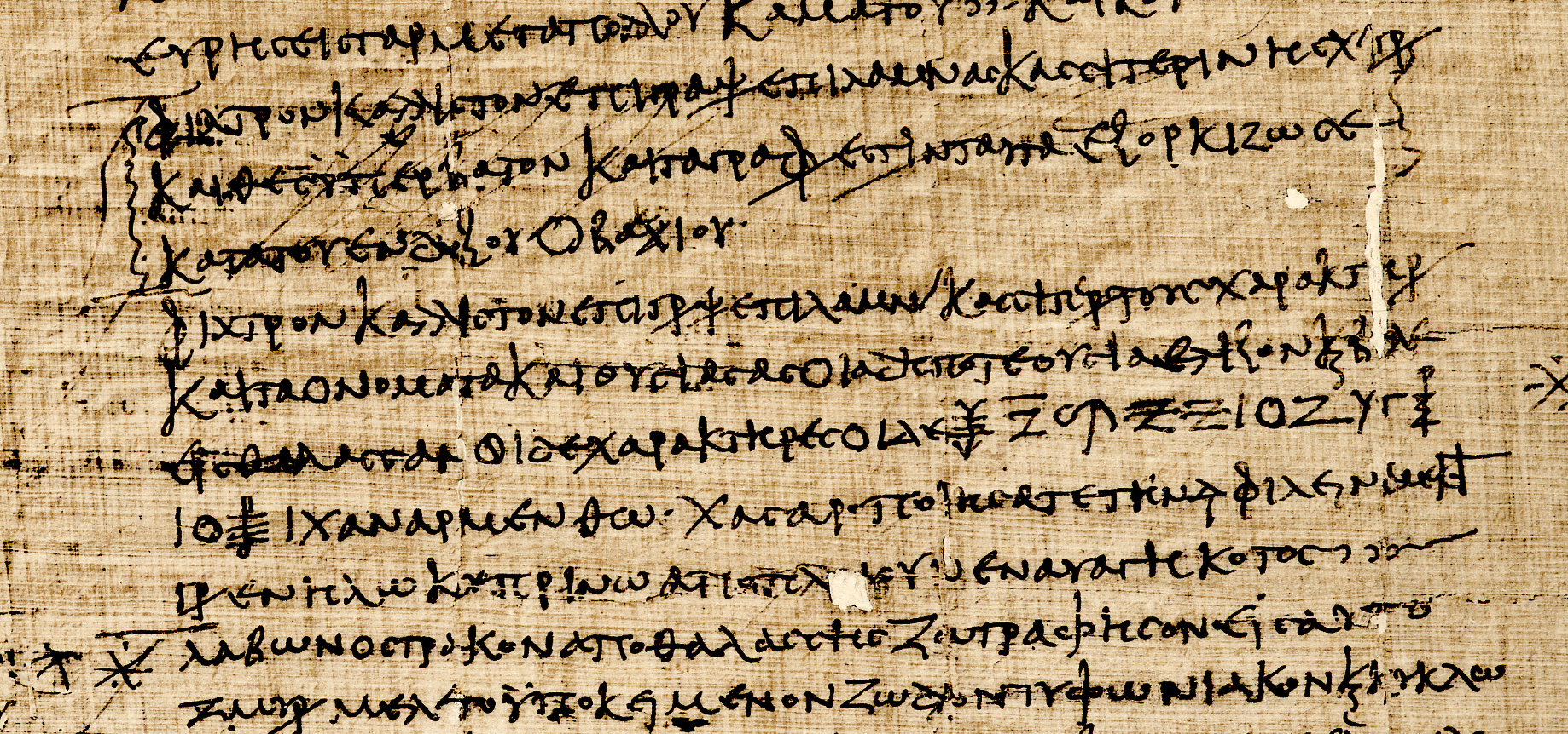 Asterisk